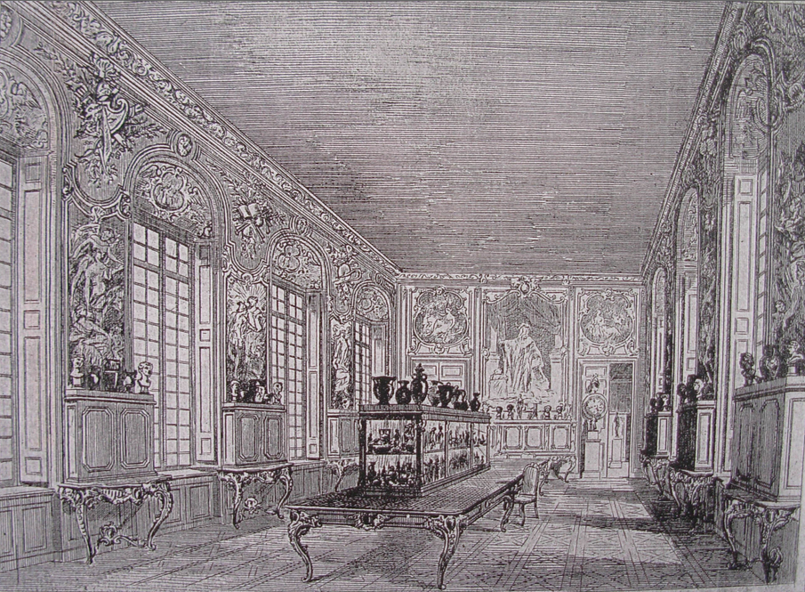 Old engraving from Le Salon Louis XV aka Le Cabinet des médailles, Bibliothèque nationale de France.